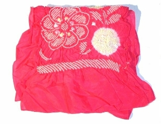 Silk heko obi with shibori dyed pattern